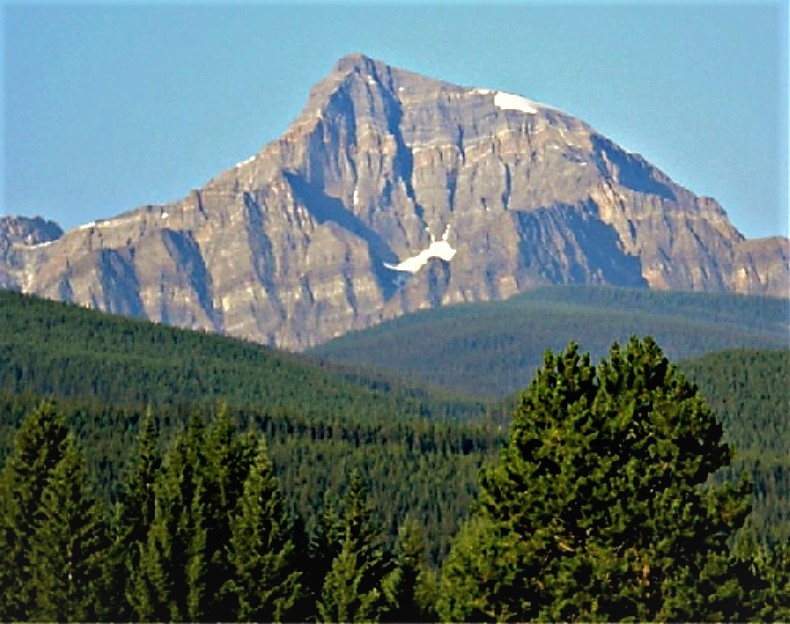 Storm Mountain of Banff Park in August 2009. Canadian Rockies